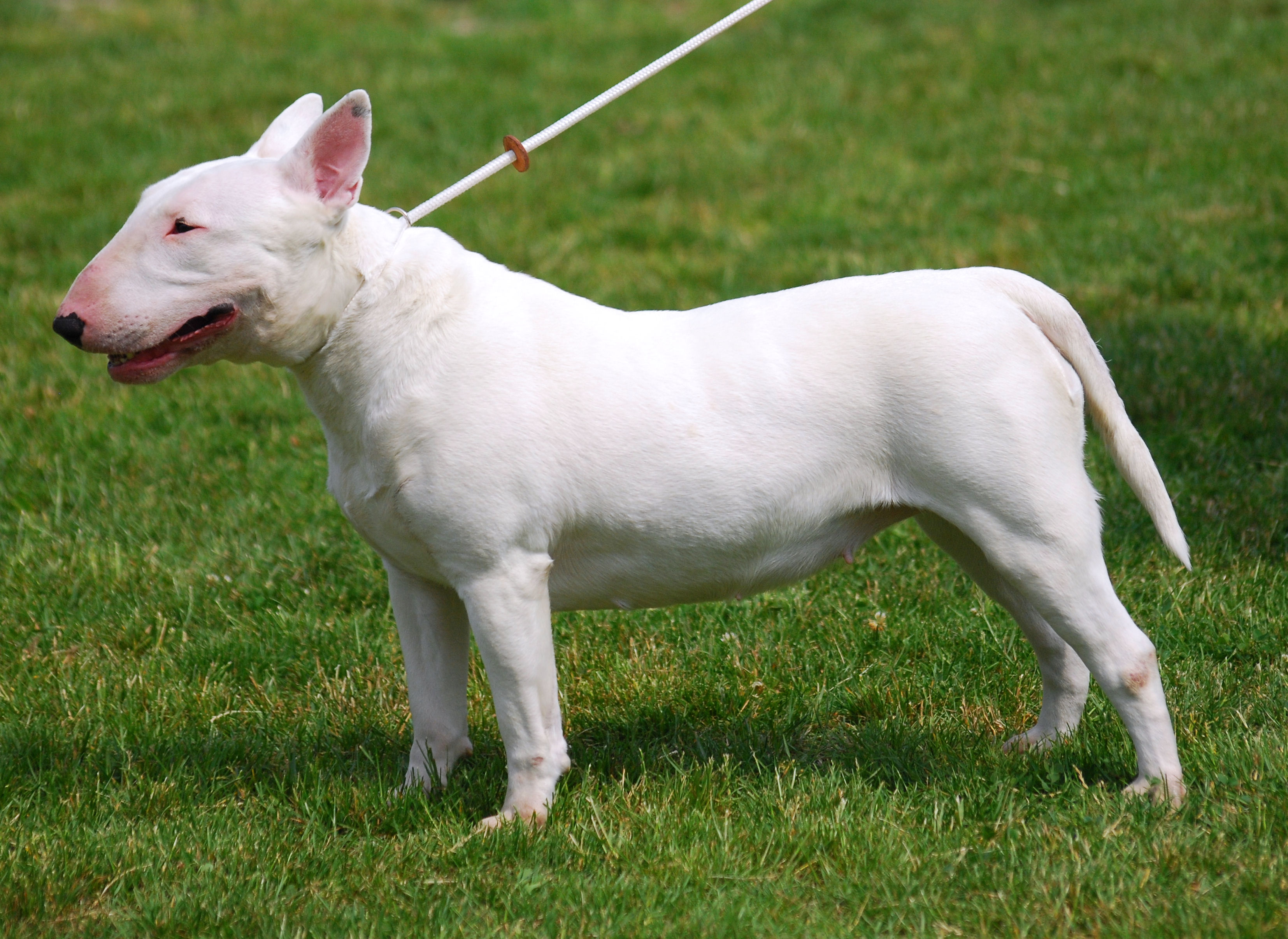 Bull Terrier, dog show Racibórz